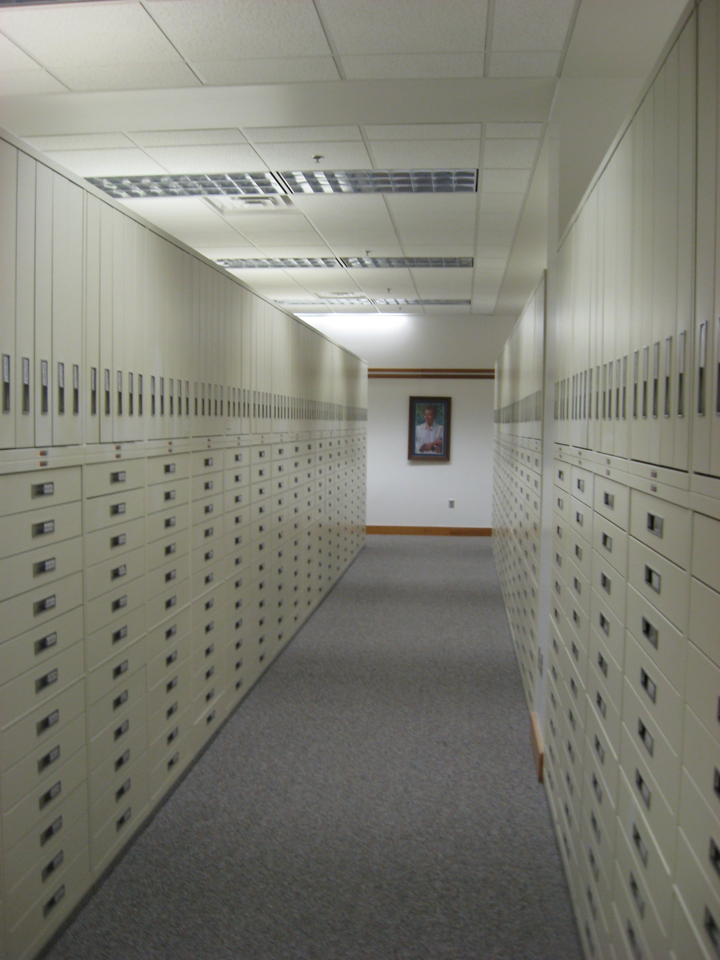 HBLL Family History Library (inside)